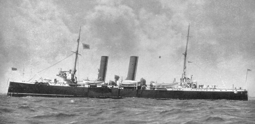 Photograph of British Apollo class protected cruiser HMS Melampus.